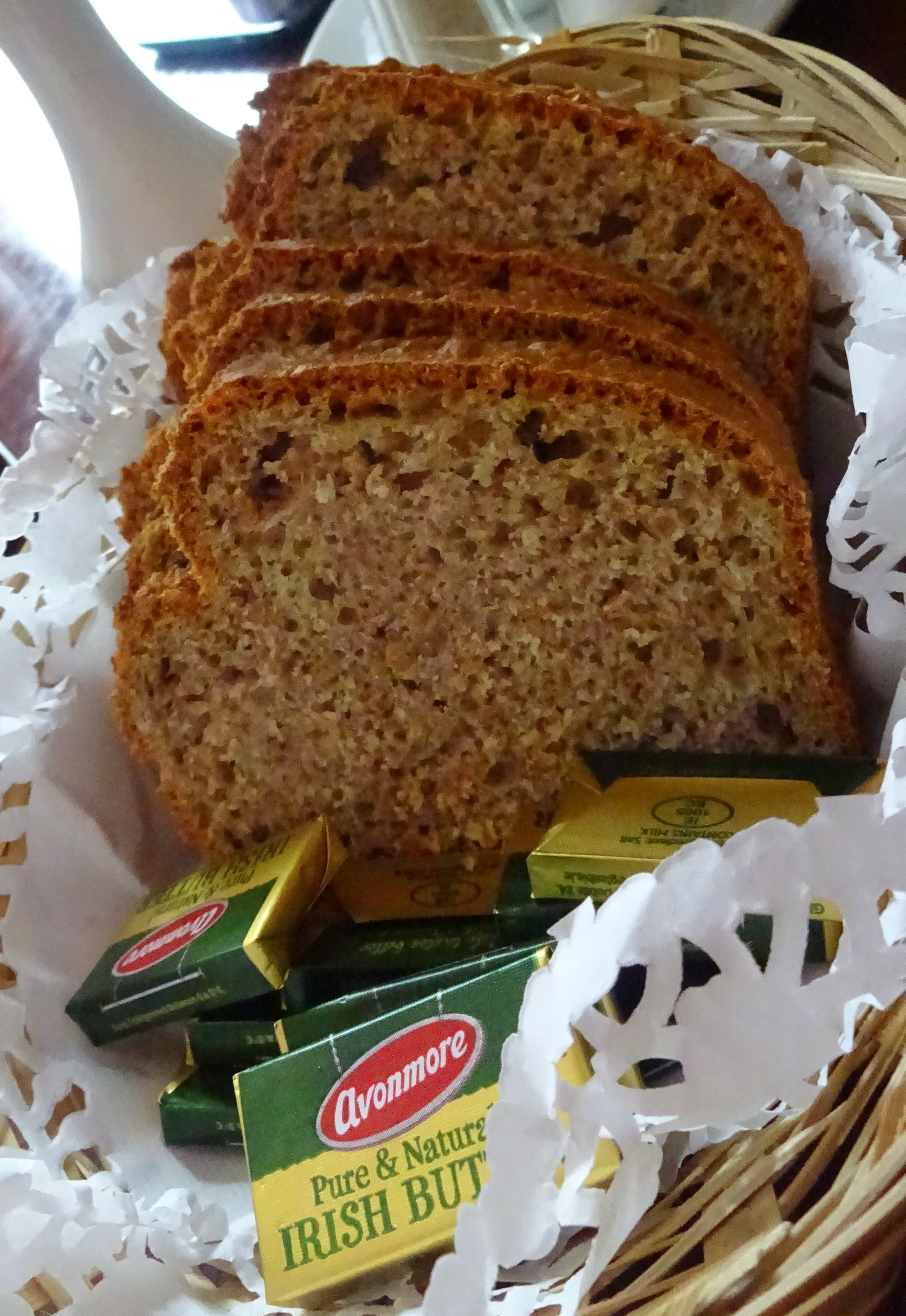 Brown bread and butter are served in Ireland for many dishes .